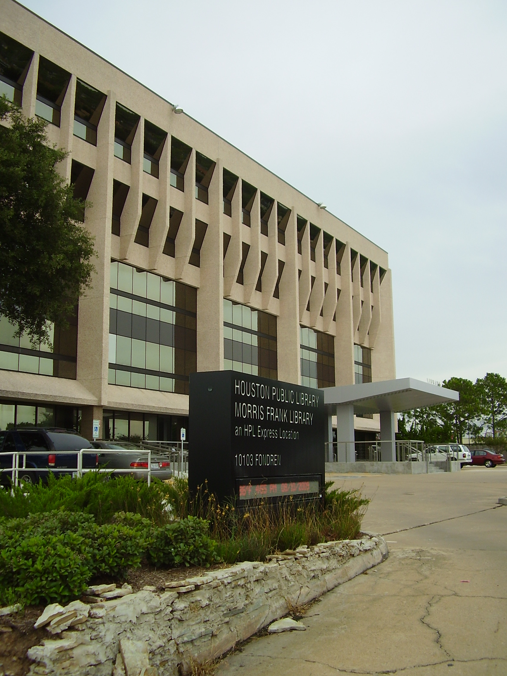 Brays Oaks Towers - includes the Morris Frank Houston Public Library Express Branch (pictured here) and the Brays Oaks Management District offices